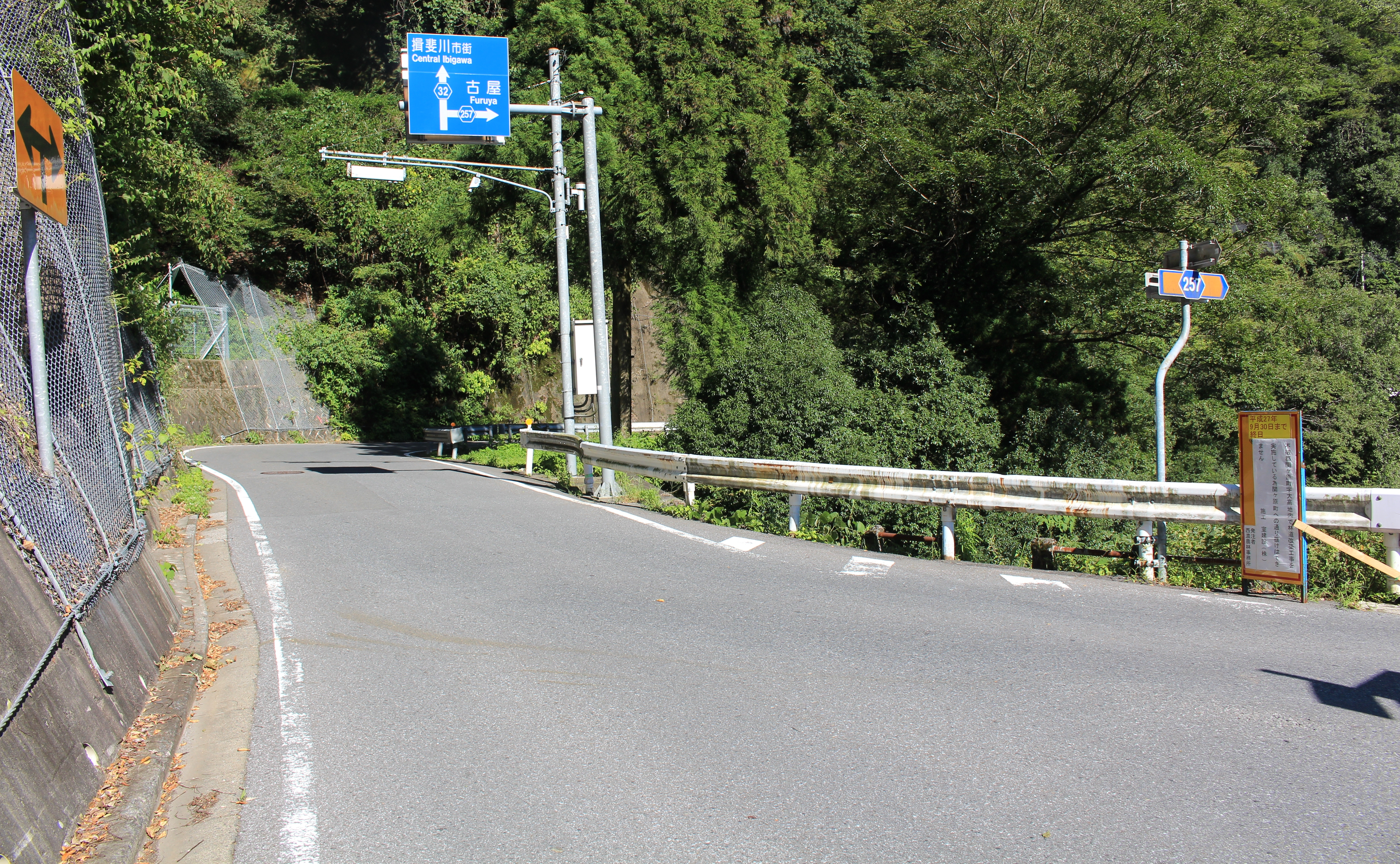 Gifu Prefectural Road Route 32 and Gifu Prefectural Road Route 257 in Kasugakawai, Ibigawa, Gifu Prefecture, Japan.